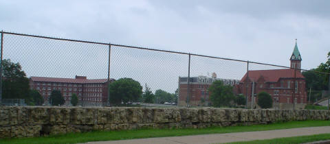 Loras College, Dubuque, Iowa. This is the eastern part of the campus - also referred to informally in the college community as the lower campus. On the right is Hoffman Hall - this building houses one of three chapels on campus. The building on the left is one of the residence halls (Beckman).